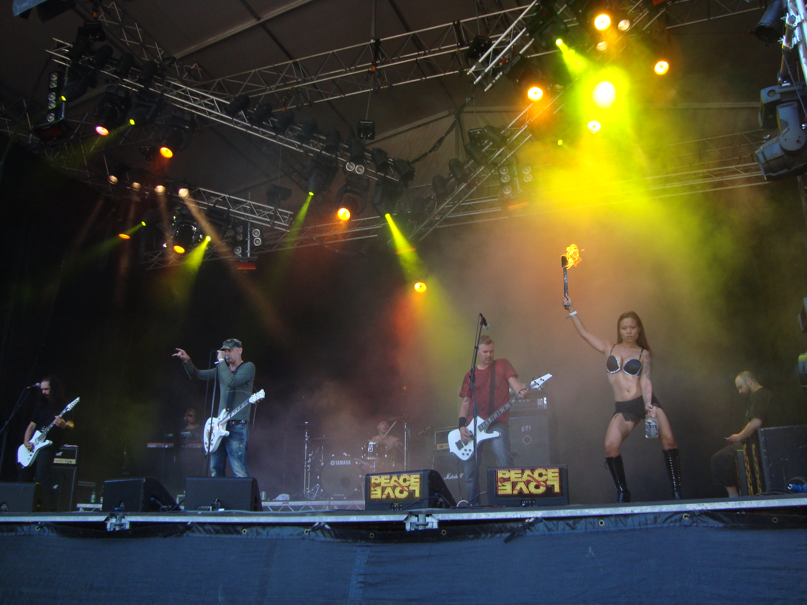 Metal group Tiamat featuring showgroup Burn Witch Burn. Peace and Love festival, Borlänge, Sweden.